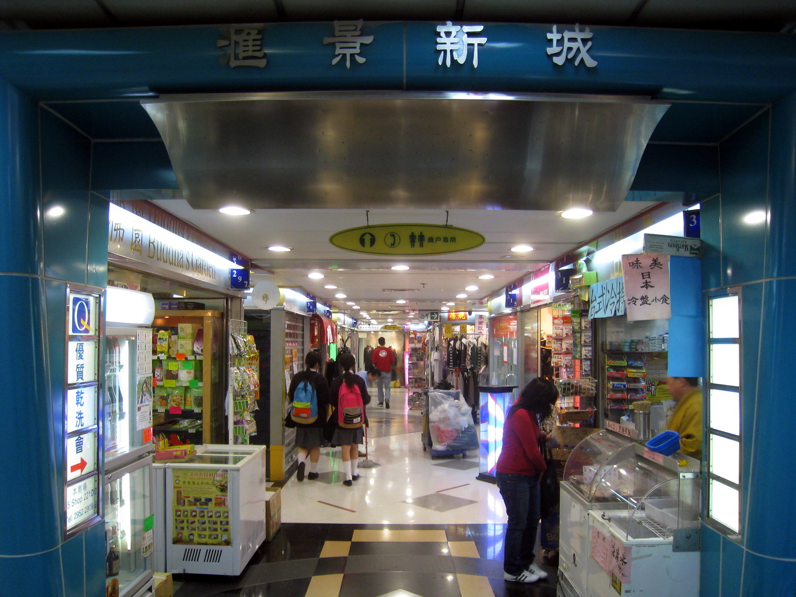 Sceneway Plaza Level 4 滙景廣場